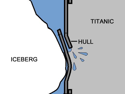 This image depcits how the iceberg damaged the RMS Titanic's hull causing the ship to sink.